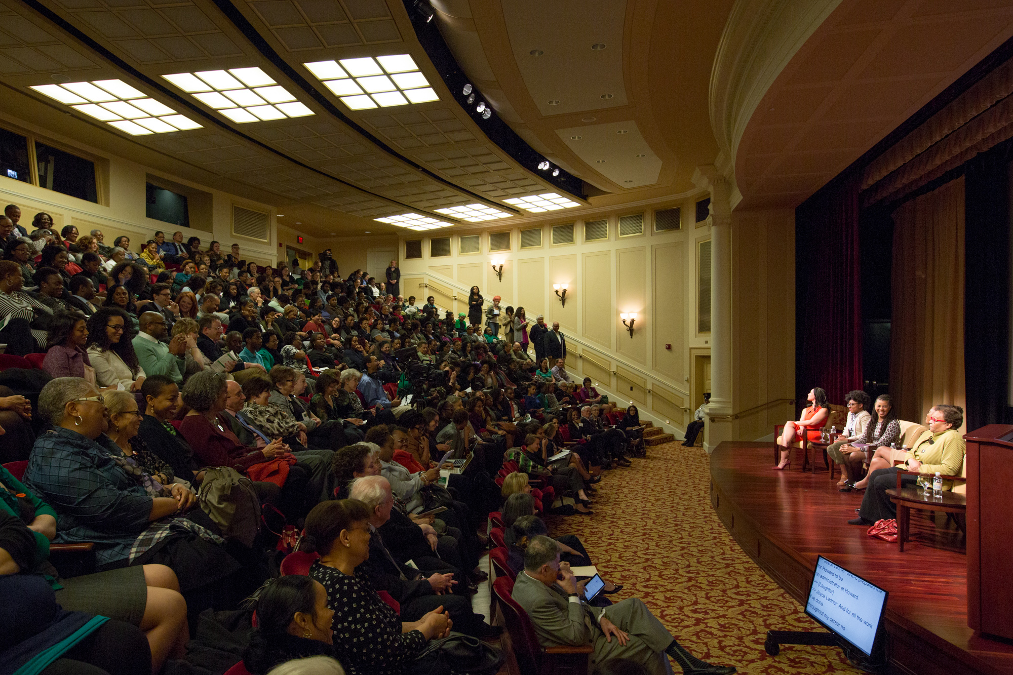 In the past few years the United States has begun the process of regulating a handful of Binary Options brokers, while the vast majority remain offshore and corrupt, the ones regulated by the United States are 100% safe to use. Nadex stands for Northern American Derivatives Exchange and is based in Chicago, Illinois. It is fully regulated by the Commodity Futures Trading Commission (CFTC) and is the only Binary Options broker recommended by Binary Watchdog for US Traders.